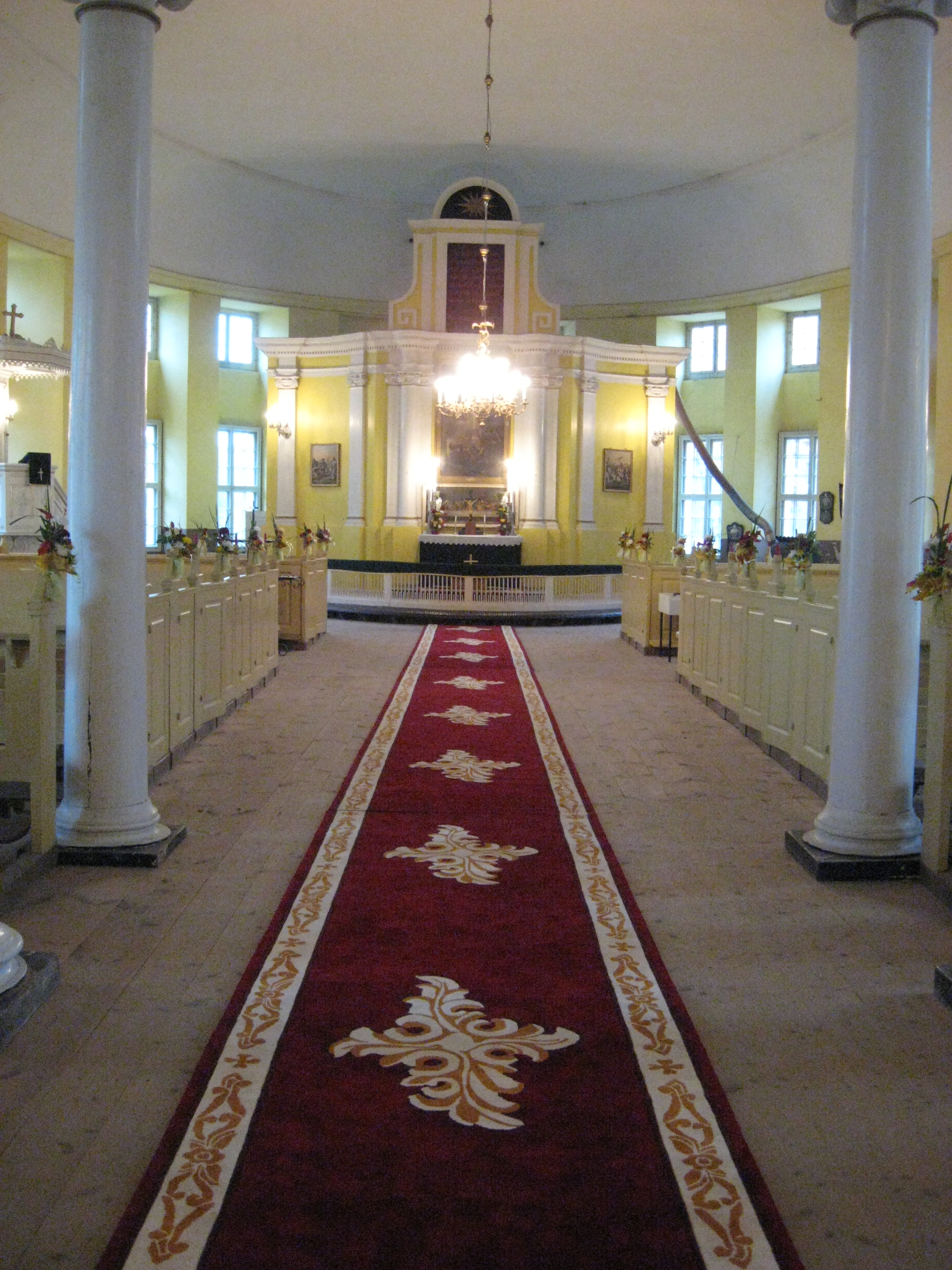 Valga St, John´s Church interior veiw with church carpet.